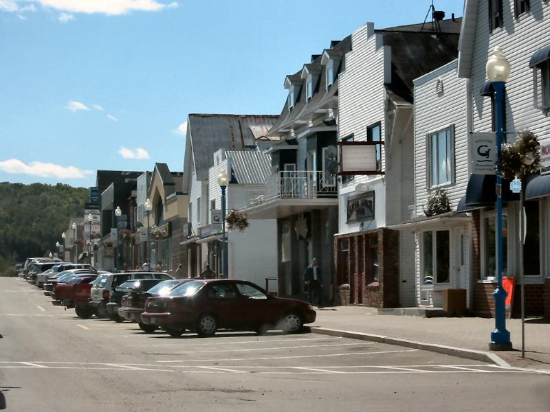 Downtown Grand Falls, New Brunswick